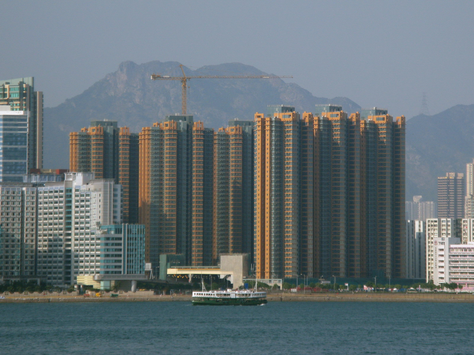 紅磡-海濱南岸 (前稱紅灣半島) Harbour Place (Former known as Hunghom Peninsula), Hung Hom